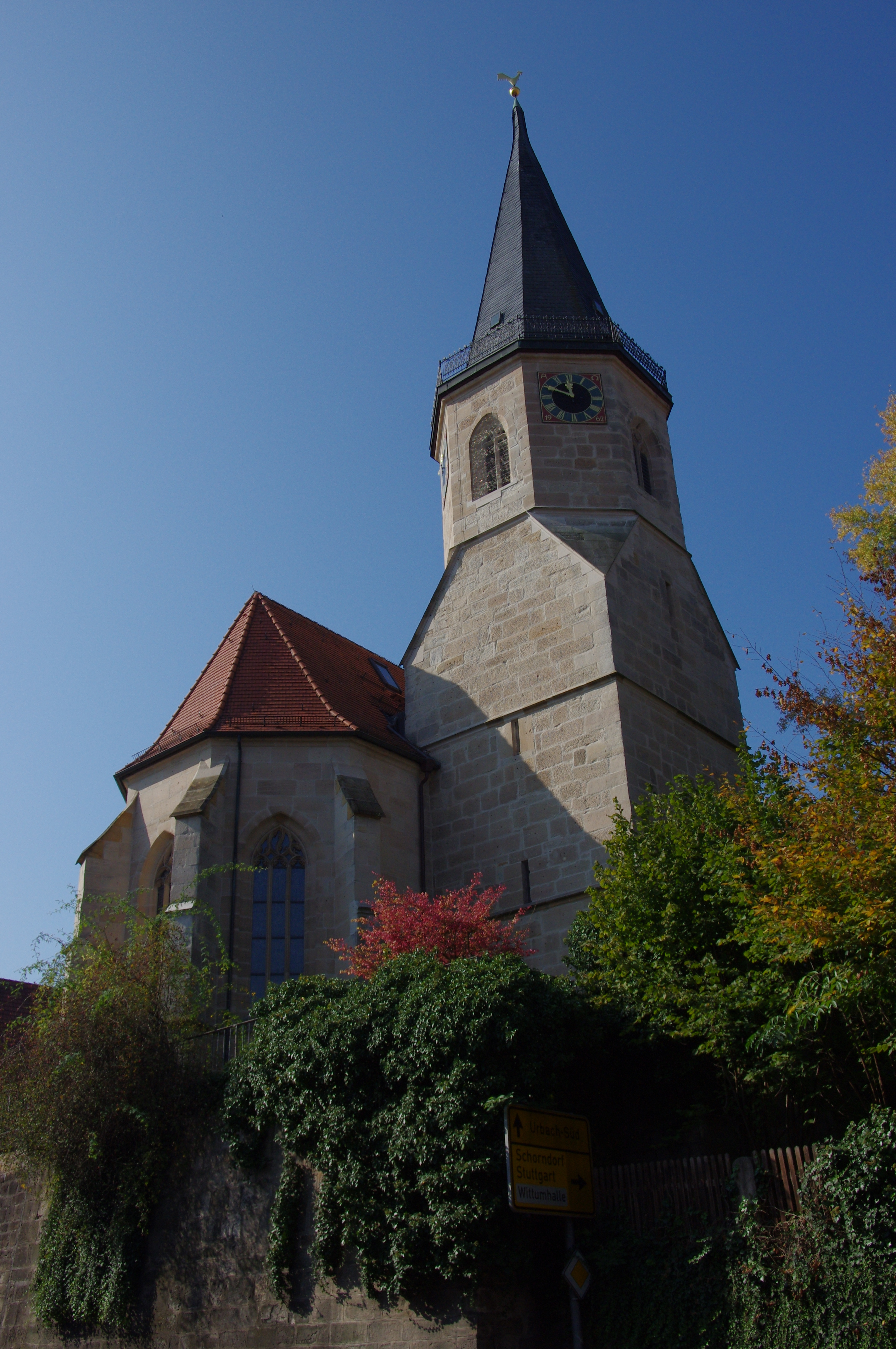 St. Afra church, Urbach (Rems), Baden-Württemberg, Germany